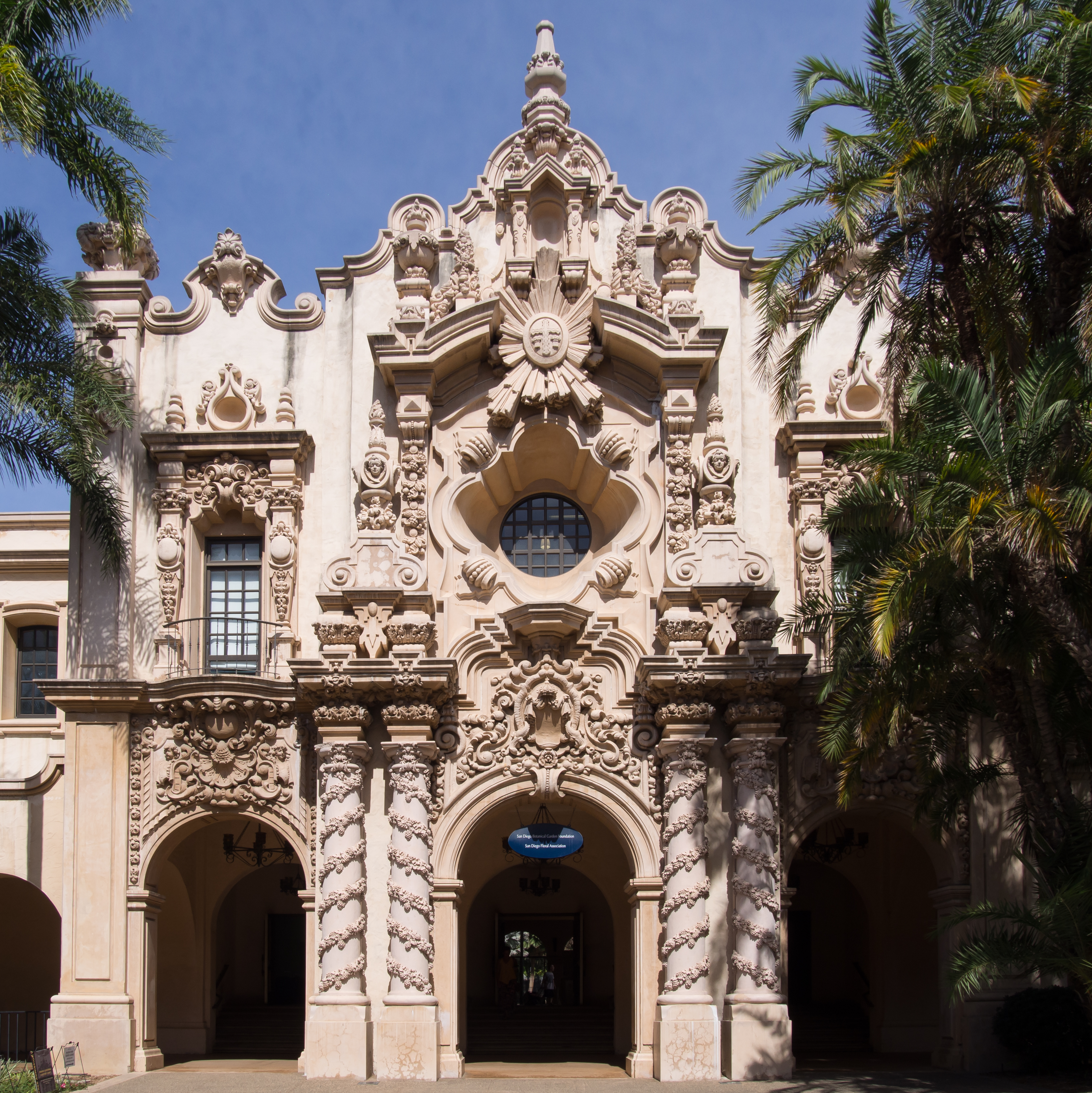 Casa Del Prado in the El Prado Complex (Balboa Park). Taken during the WikiConference North America 2016 Culture Crawl.